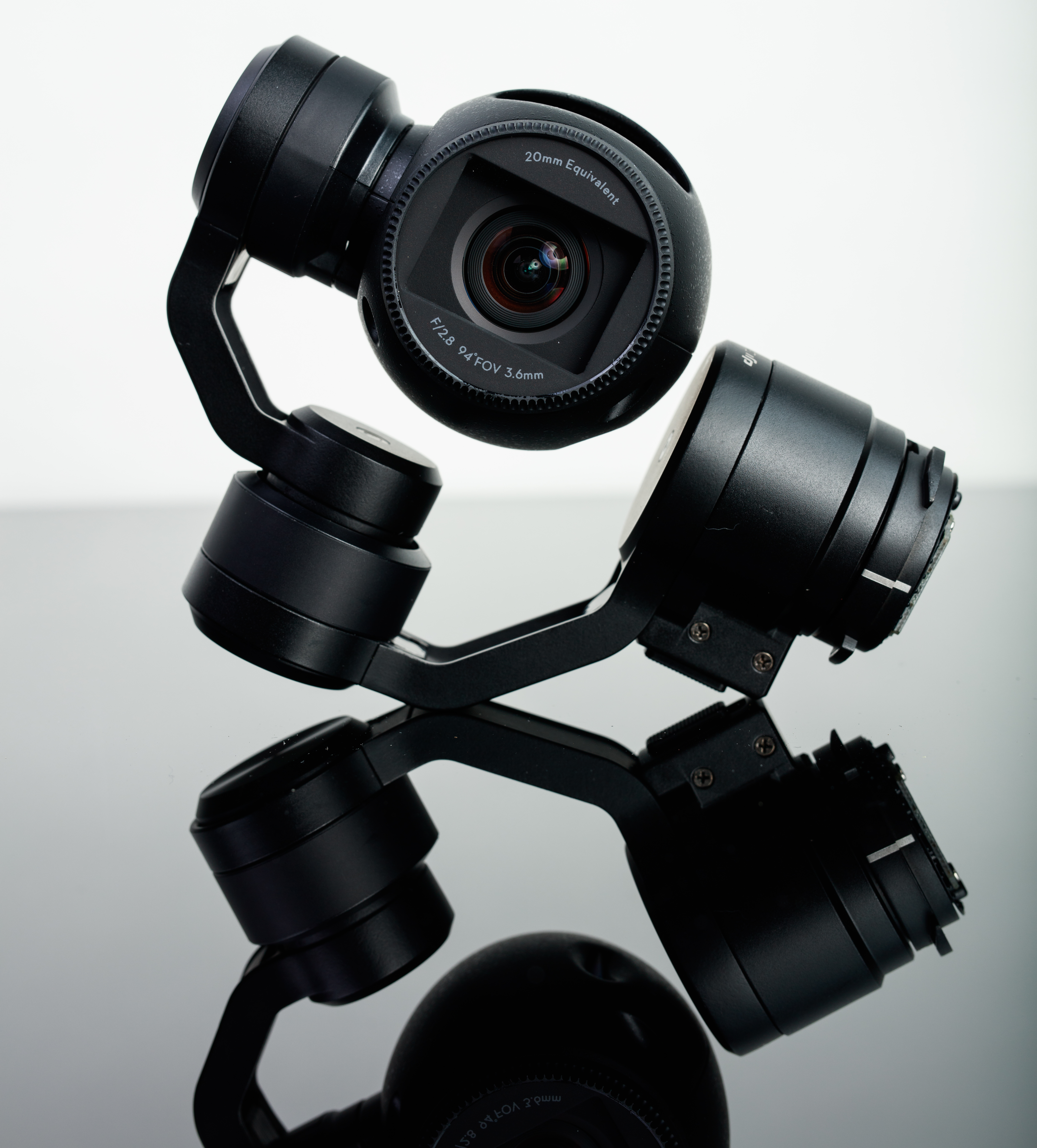 A DJI OSMO camera and gimbal, detached from the handle and laying on its side.